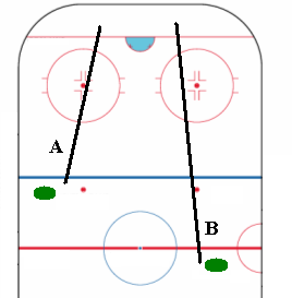 Description of the ice hockey rule called "icing"